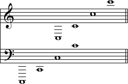 Notes, C